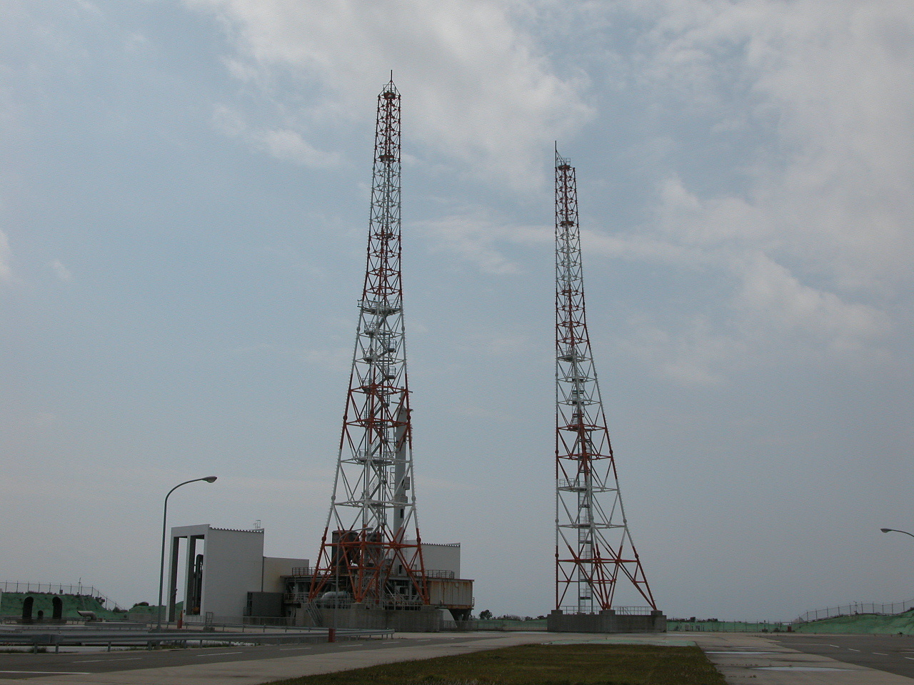 Launch Pad 2, Yoshinobu Launch Complex, Tanegashima Space Center, Japan Aerospace Exploration Agency